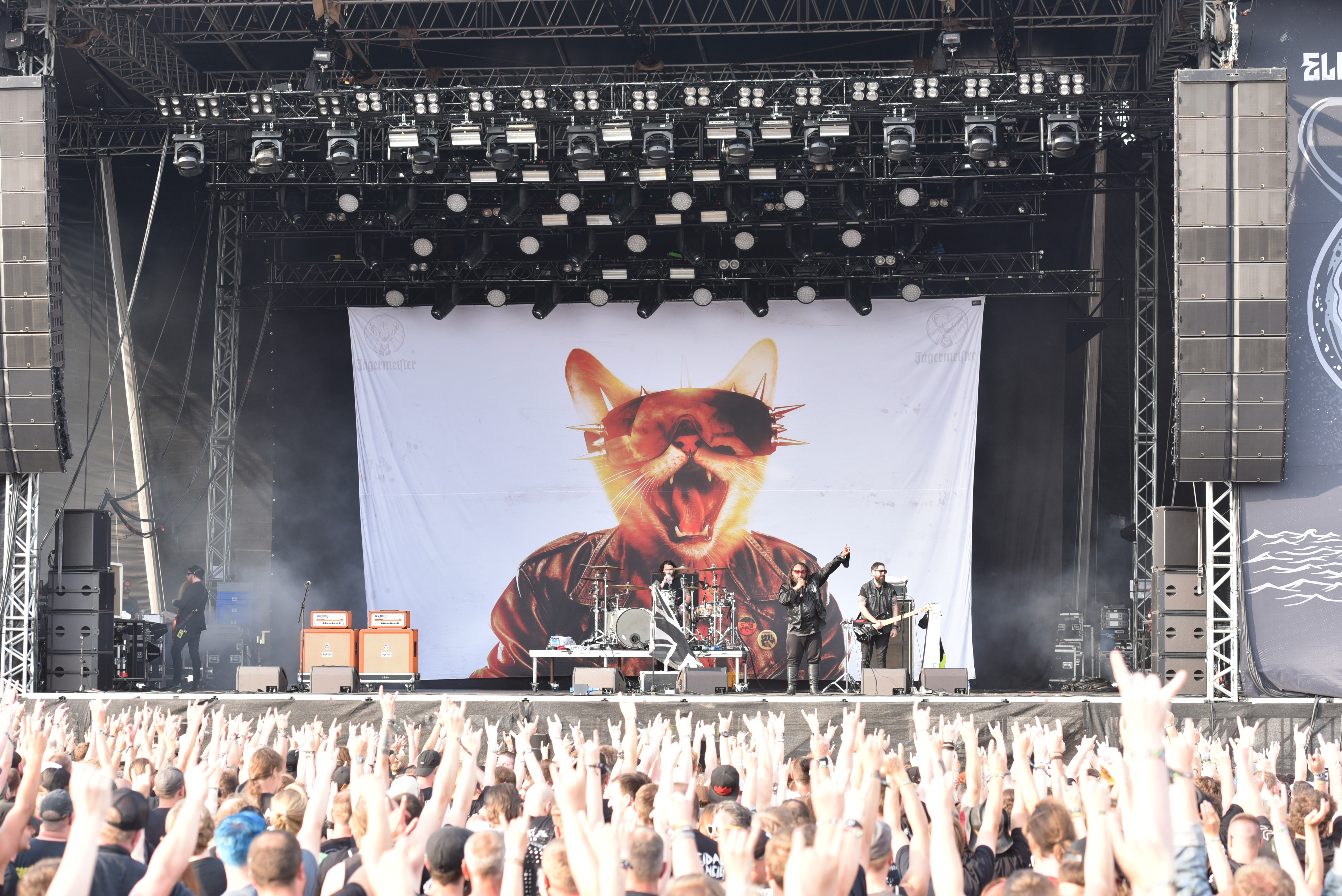 Skindred at Elbriot 2018